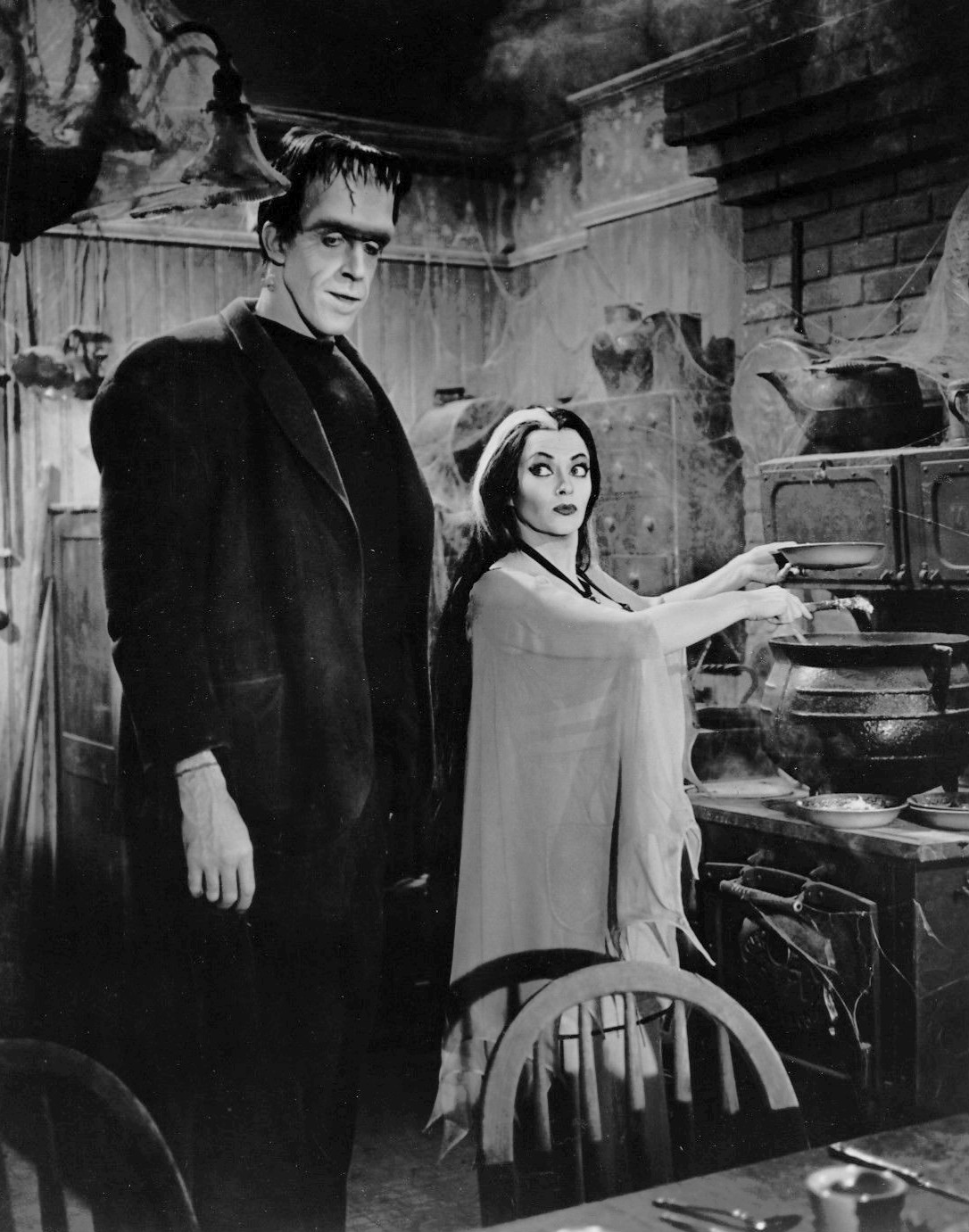 Photo of Fred Gwynne (Herman Munster) and Yvonne DeCarlo as his wife, Lily, from the television program The Munsters.